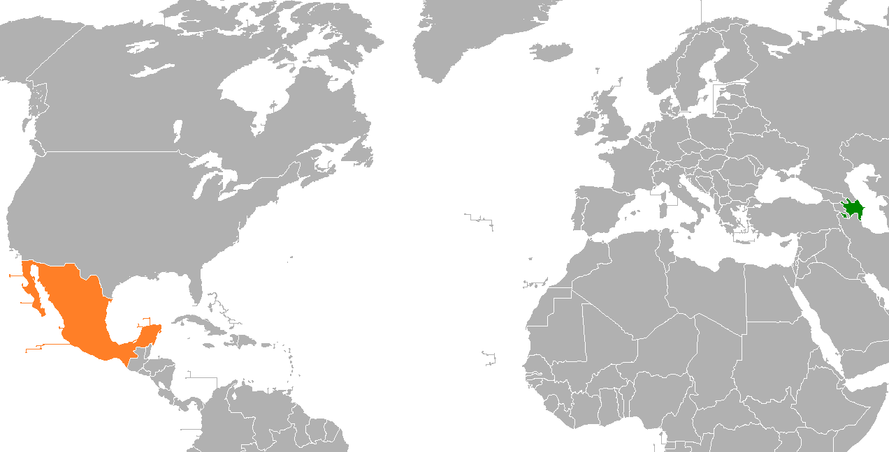 Map showing locations of Azerbaijan and Mexico